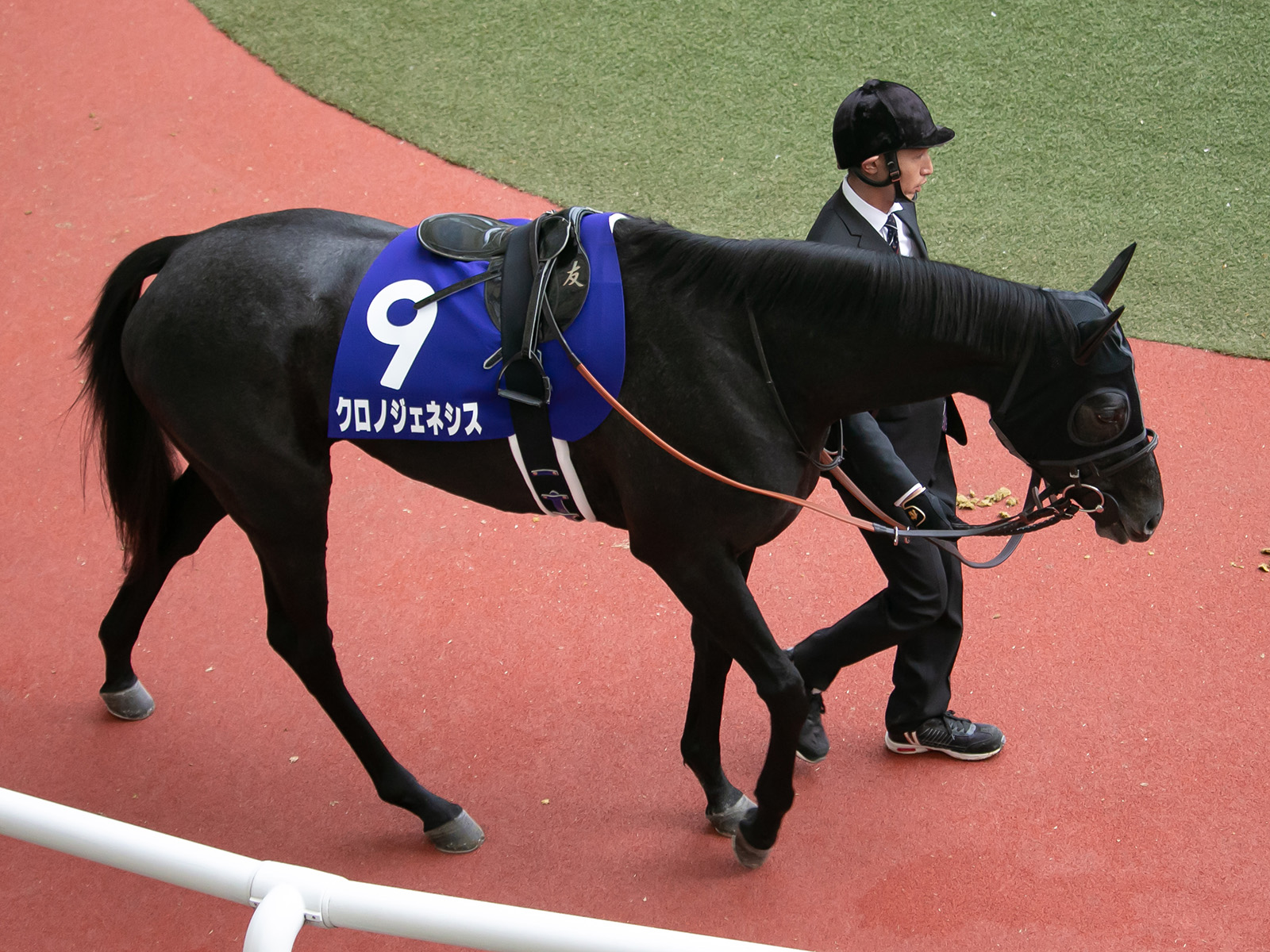 Chrono Genesis(JPN), Racehorse of Japan.